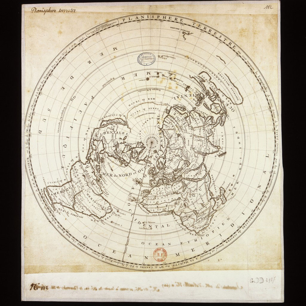 This 1696 polar projection world map by Jacques Cassini (1677–1756) is the replica and only surviving representation of the large, 7.80-meter diameter planisphere by his father, Jean-Dominique Cassini (1625–1712). The first director of the Paris Observatory, the elder Cassini had designed the planisphere on the floor of one of the observatory's towers, using astronomical observations performed by correspondents of the Academy of Sciences. The map shows 43 places, from Quebec to Santiago, from Goa to Beijing, each marked with a star, with latitudes accurately measured using a method that relied upon observation of the moons of Jupiter. The longitudinal measurements on the map are less accurate, as the determination of longitude remained problematic until the installation on ships, in the second half of the 18th century, of marine chronometers. Their significance was that they could precisely measure the time at a known meridian when out of sight of land, which then could be used to determine longitude based on the rotation of the Earth. The map also displays uncertainties regarding the northern borders of Asia and America, which persisted until the discovery of the Bering Strait in 1728. The map is from the collection of the geographer Jean-Baptiste Bourguignon d'Anville (1697–1782). It was given to King Louis XVI in 1782 and deposited in the National Library of France in 1924. World maps